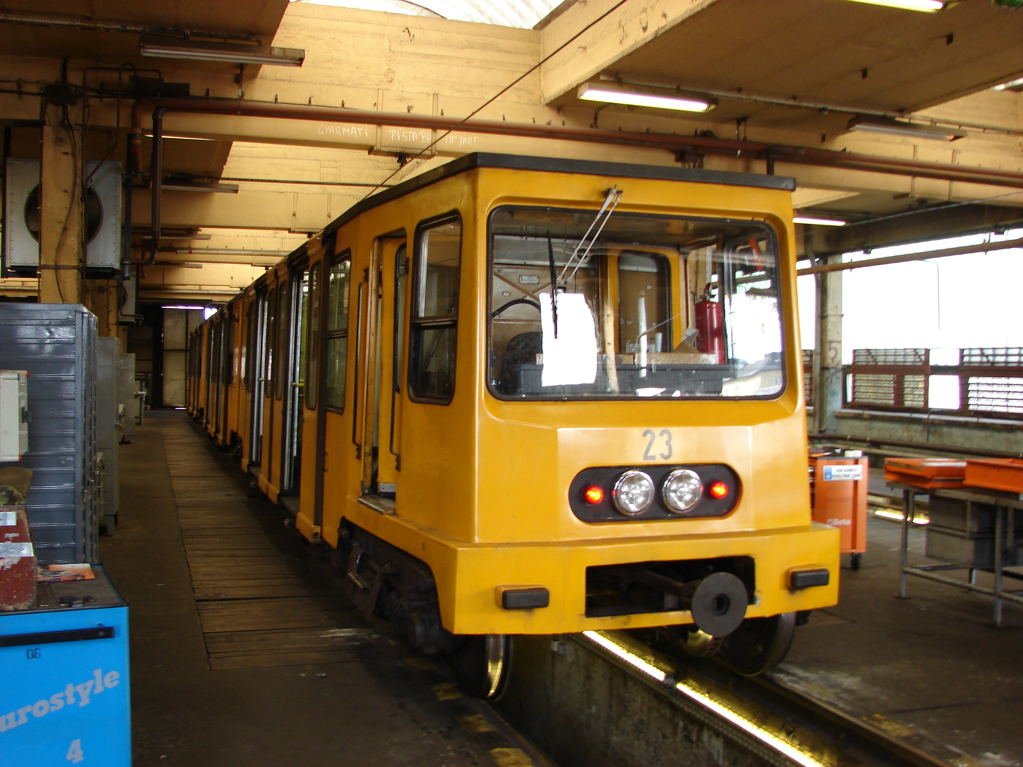 Mexikói út depot, Budapest metro